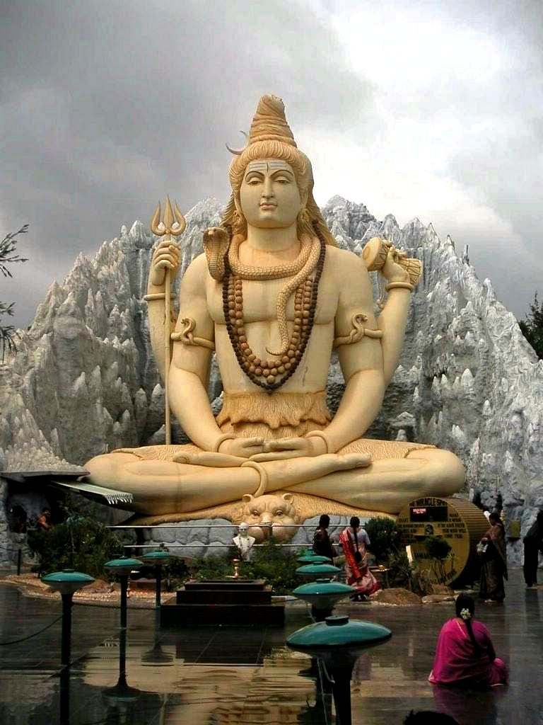 A statue of Hindu deity Shiva in a temple in Bangalore, India.